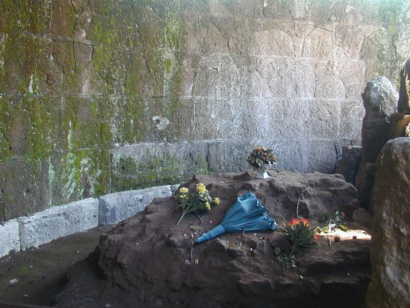 Rome, Roman Forum, ara Julius Caesar: the memory that never dies.